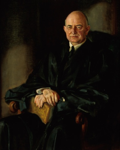 Portrait of Stanley Forman Reed, Associate Justice of the Supreme Court of the United States.